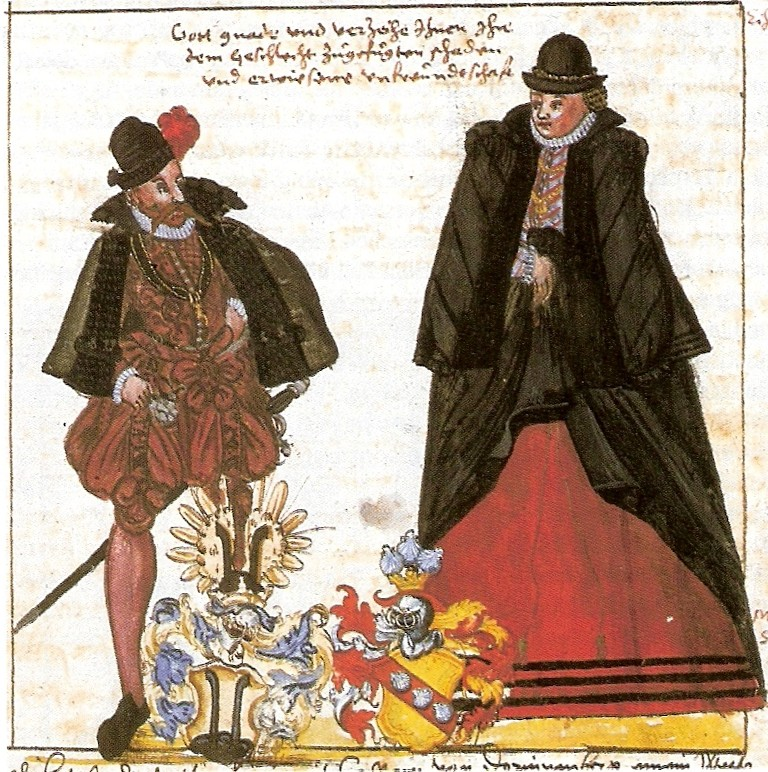 On the left side Ludwig Eisenberger, Amtmann in Ortenberg and later in Wehrheim is shown. The woman on the right side is his wife Margaretha Schwartzin